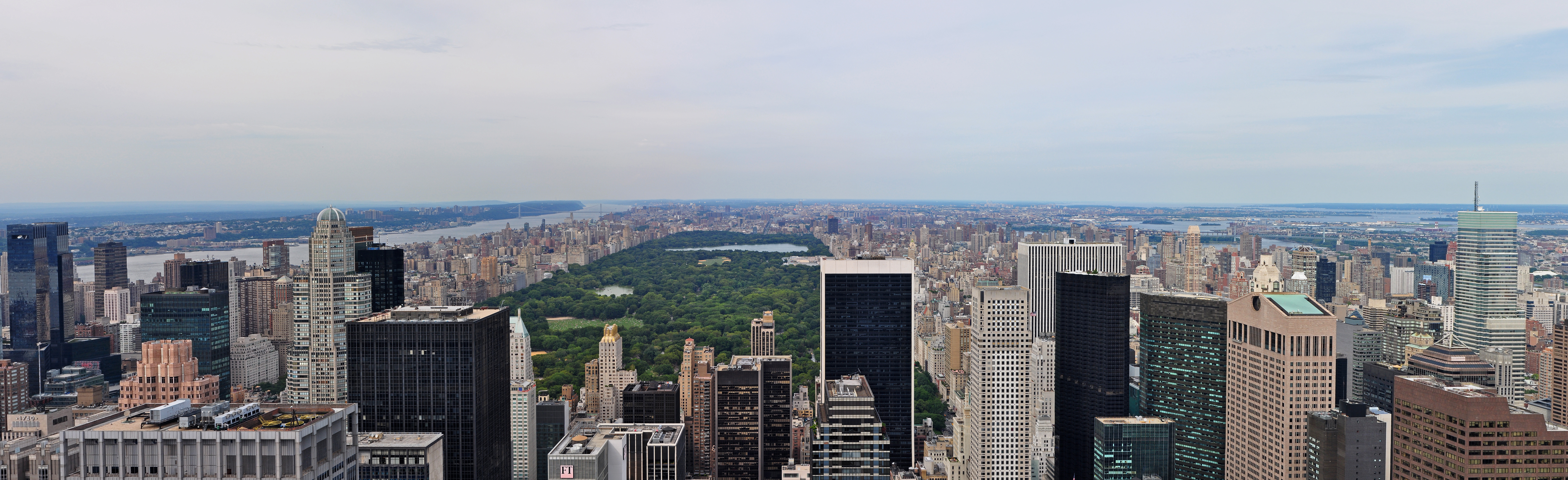 Panorama di New York City dal Rockfeller Center con vista Central Park